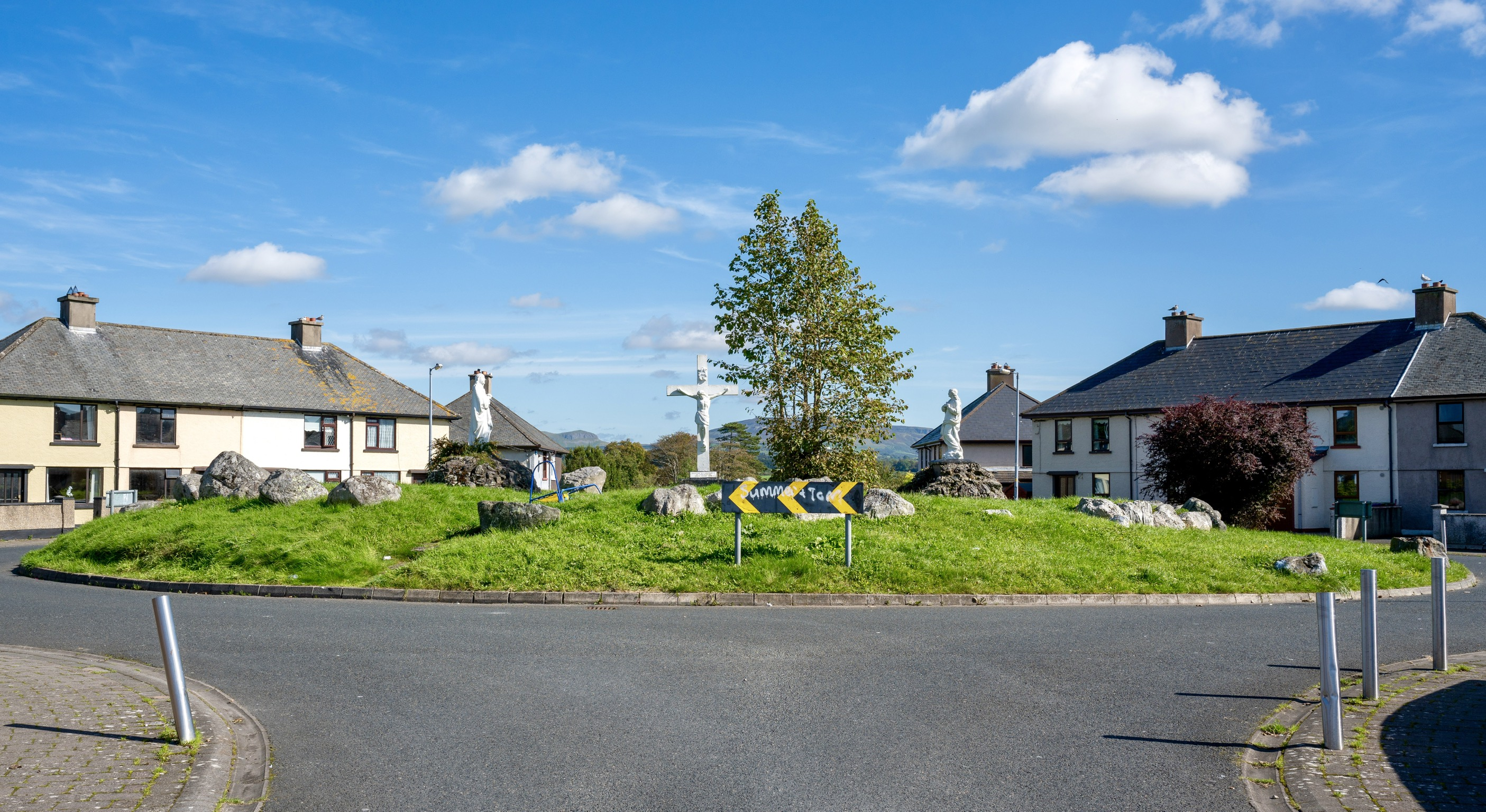 County Sligo, Abbeyquarter North Tomb. Wikidata has entry Q33093094 with data related to this item.